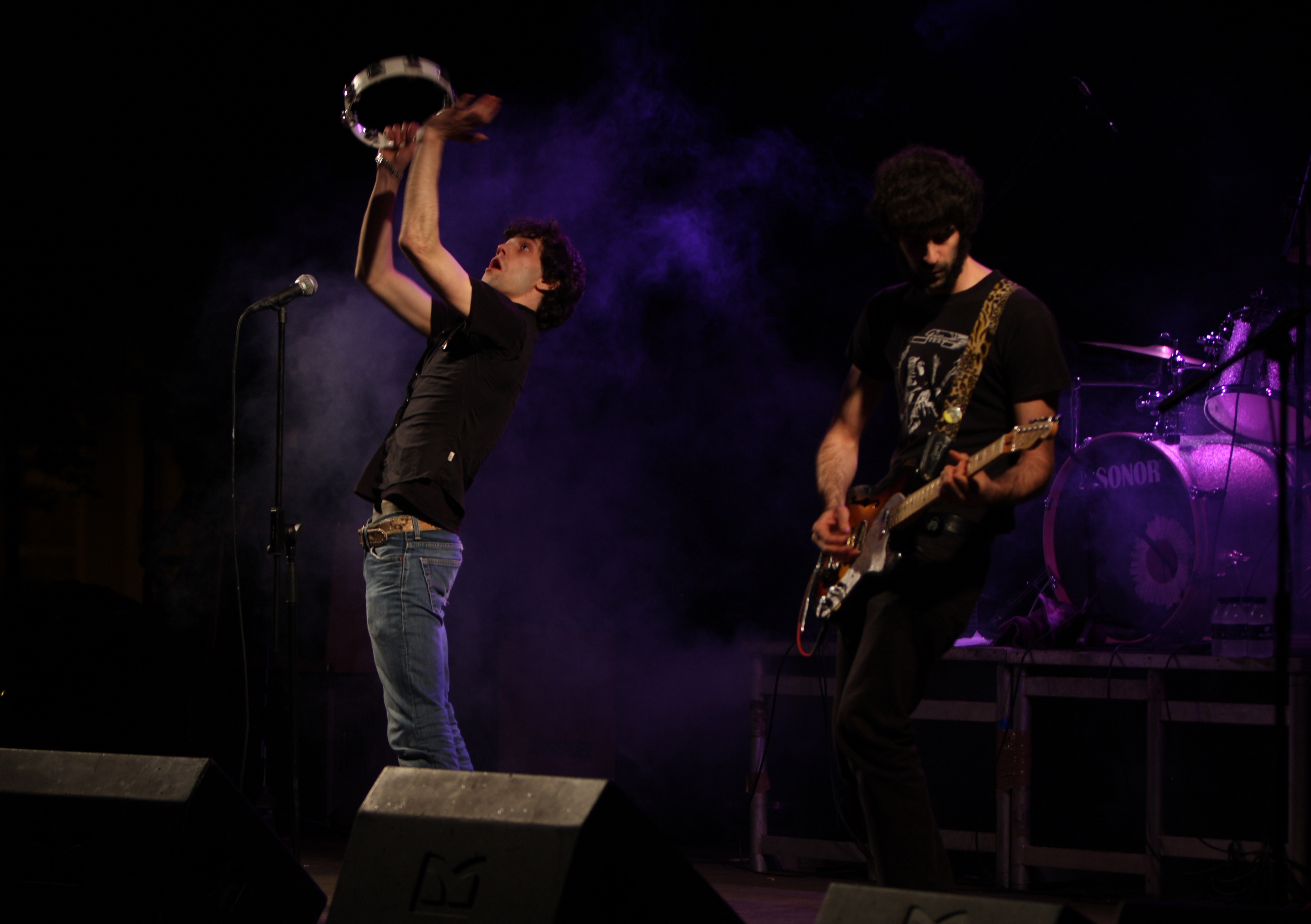 The 5 Twisters Rock and Roll band.